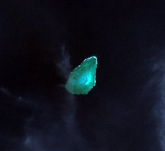 Boxall Reef is a coral reef of Spratly Islands.